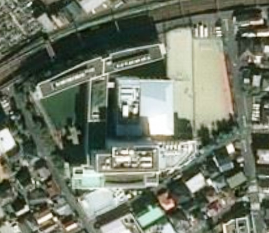 Hachioji Academy